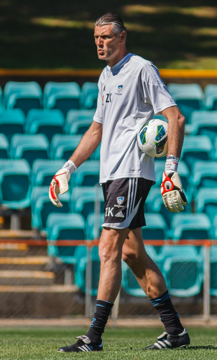 Željko Kalac coaching at a pre-season match between Sydney FC and Newcastle Jets.